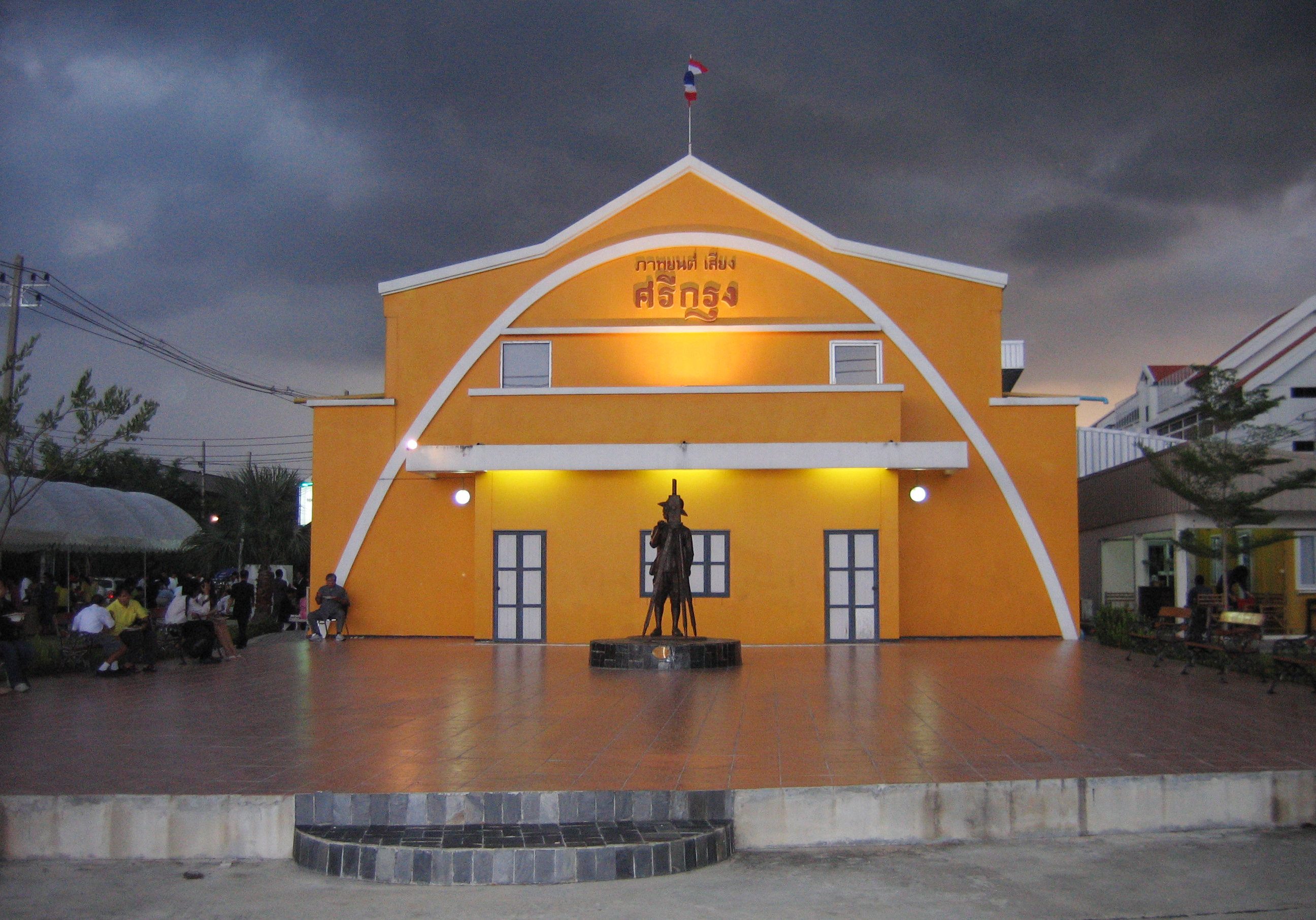 The yellow museum building of the National Film Archive of Thailand in Salaya, Nakhon Pathom Province.